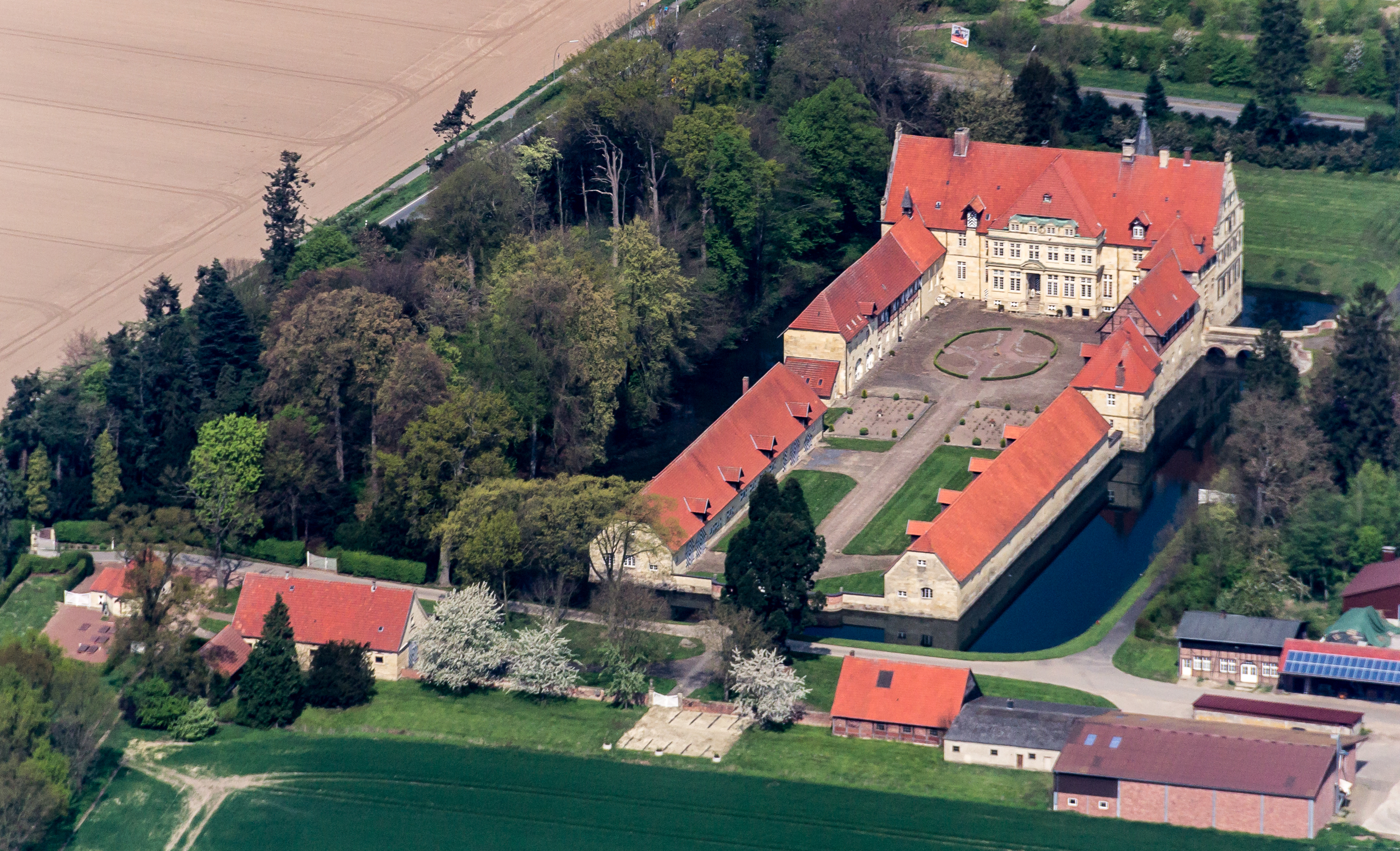 Havixbeck Manor in Havixbeck, North Rhine-Westphalia, Germany